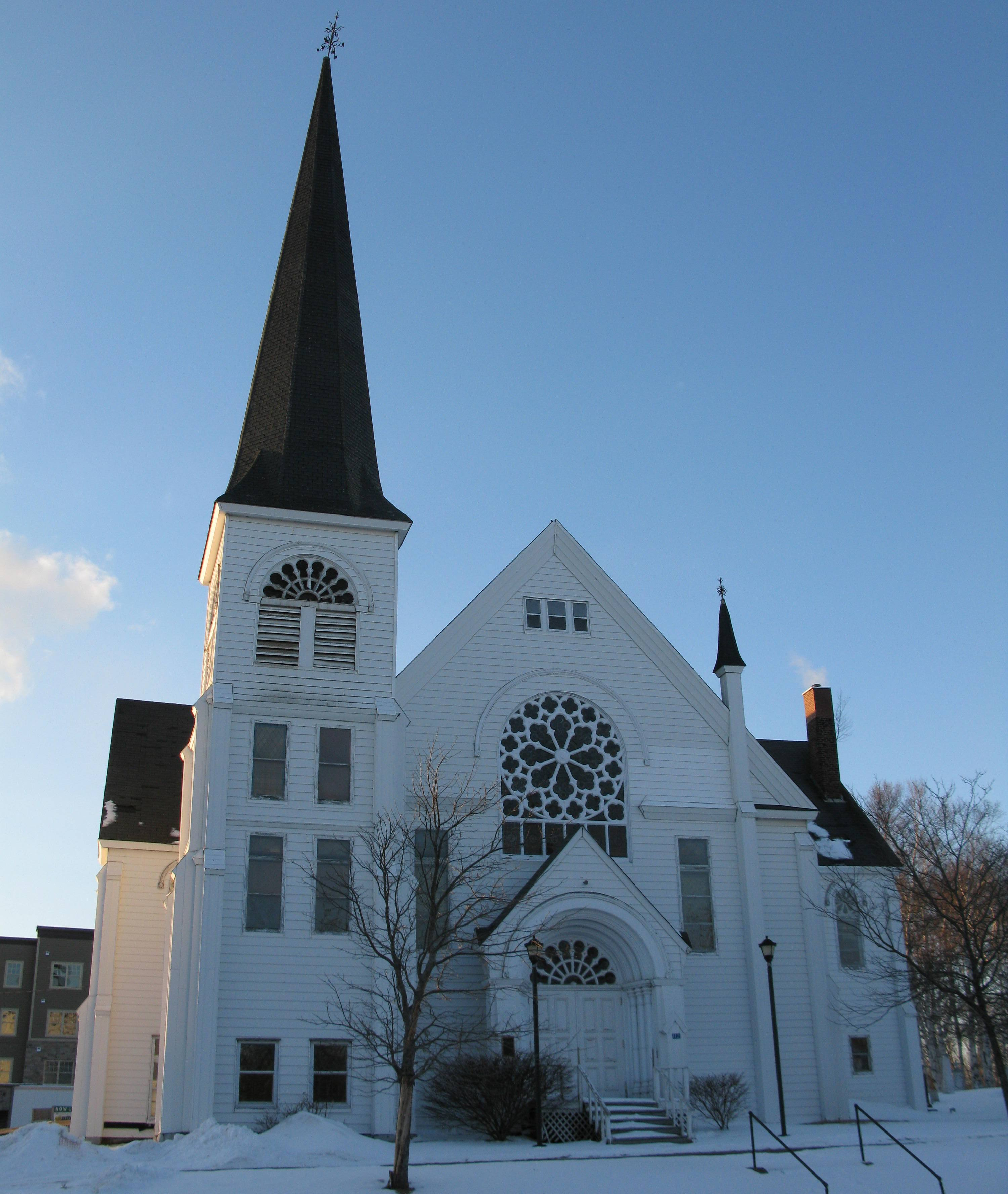 The photo shows the exterior of Sackville United Church in New Brunswick, Canada before it was demolished in 2015.